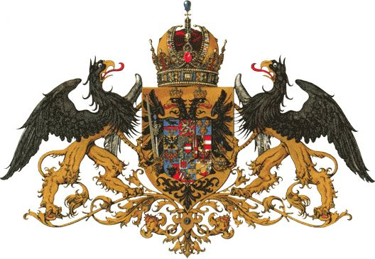 Coats of arms of Austrian Countries (formally Realms and Countries represented in the Reichrat, vulgo Cisleithania), part of Austria-Hungary, 1915–1918 Blason see image below See Image:Wappen Österreich-Ungarn 1915 (Mittel).png for the Common Coats of Arms of Reichrat (Austria) and Crown of St. Stephan (Ungarn) with joining Habsburg